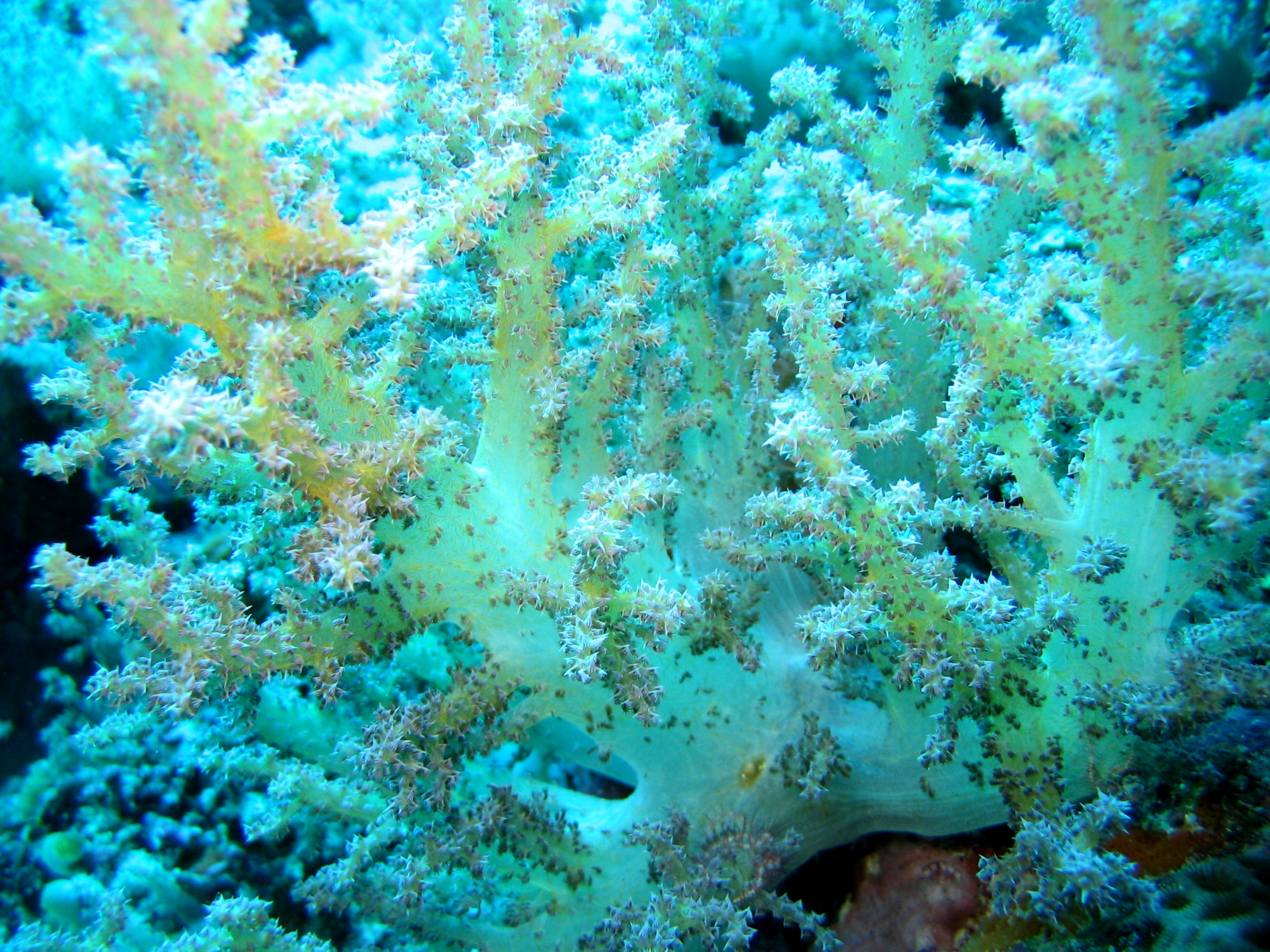 Yellowish white soft coral. Philippine Islands, Occidental Mindoro, Apo Reef.